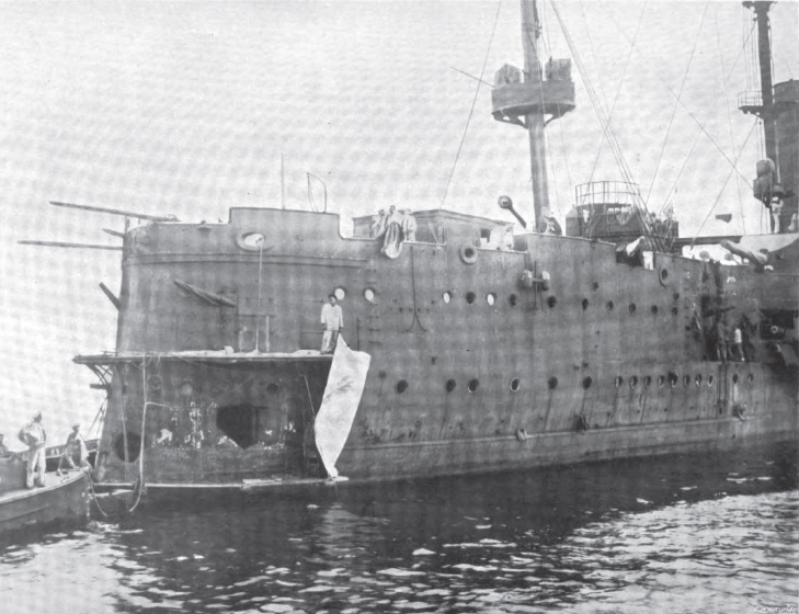 Stern damage suffered by the Russian armored cruiser Gromoboi during the Battle of Ulsan